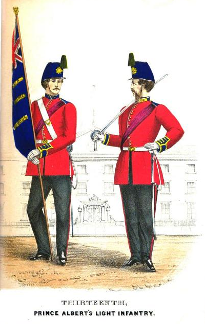 Standard bearer and officer of the 13th (1st Someresetshire) Light Infantry, 1866